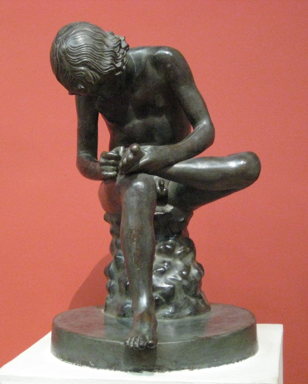 Boy extracting a splinter. Cast in Pushkin museum after original in Capitolian museum